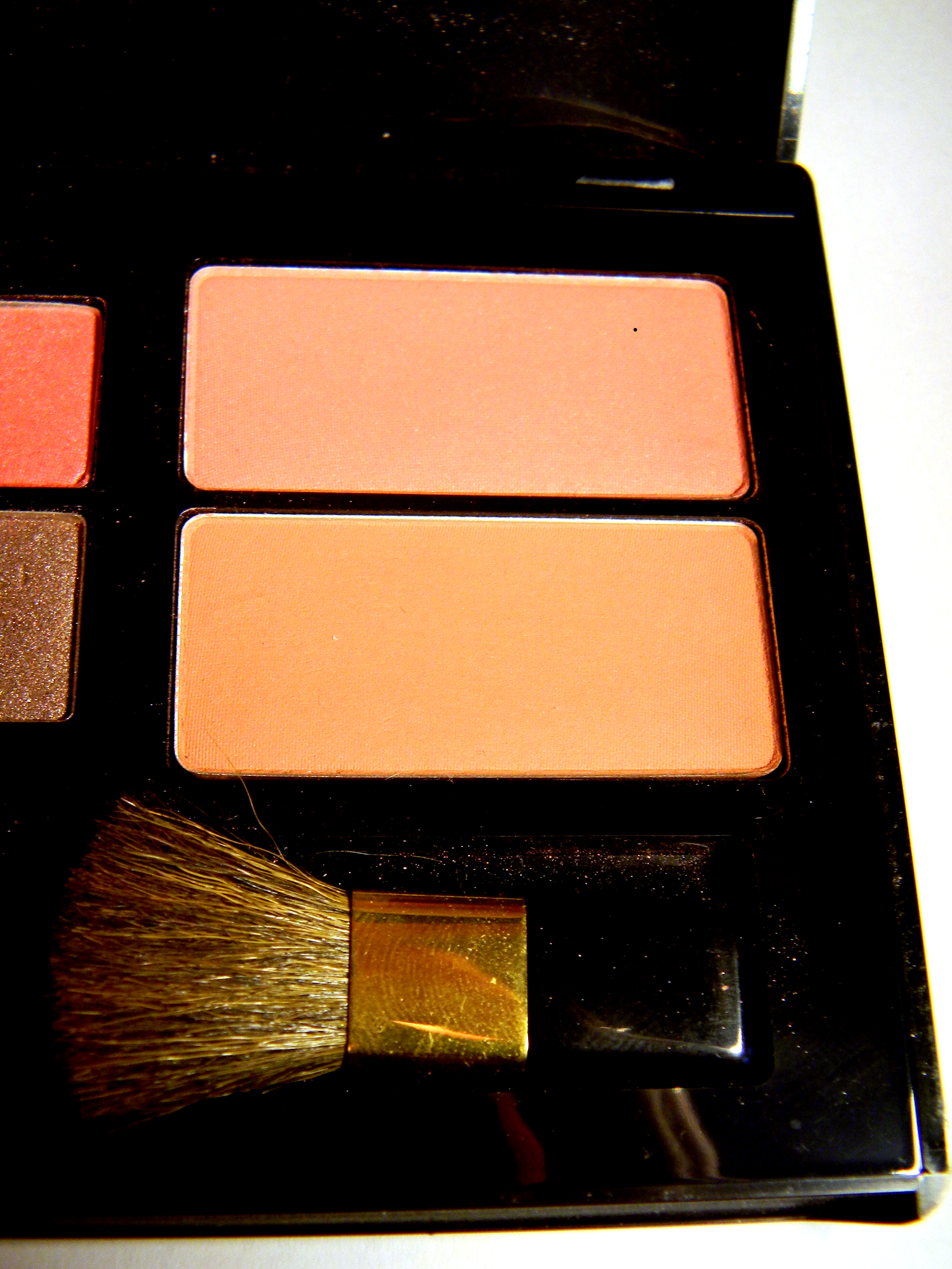 A photograph of the blush section of an Estée Lauder eyeshadow/blush compact.